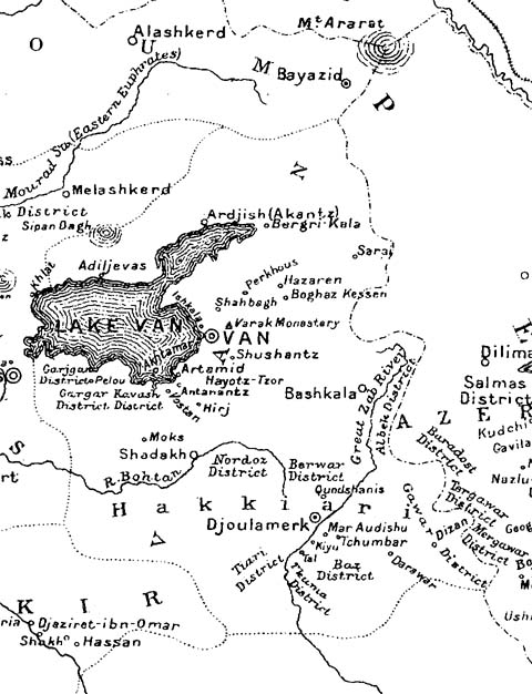 Map of Van vilayet and neighboring Urmiya District